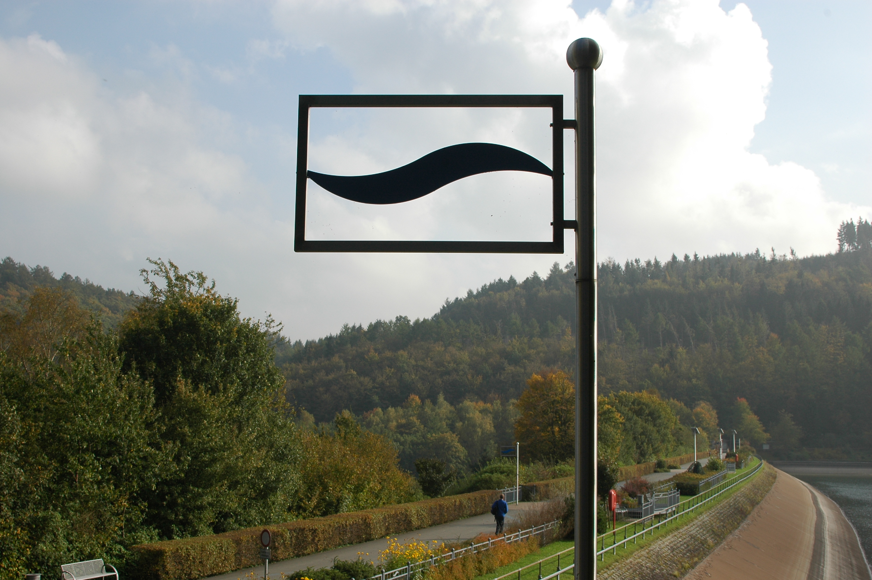 Henne Reservoir/Dam (Hennetalsperre) in Meschede, Hochsauerlandkreis, North Rhine-Westphalia, Germany